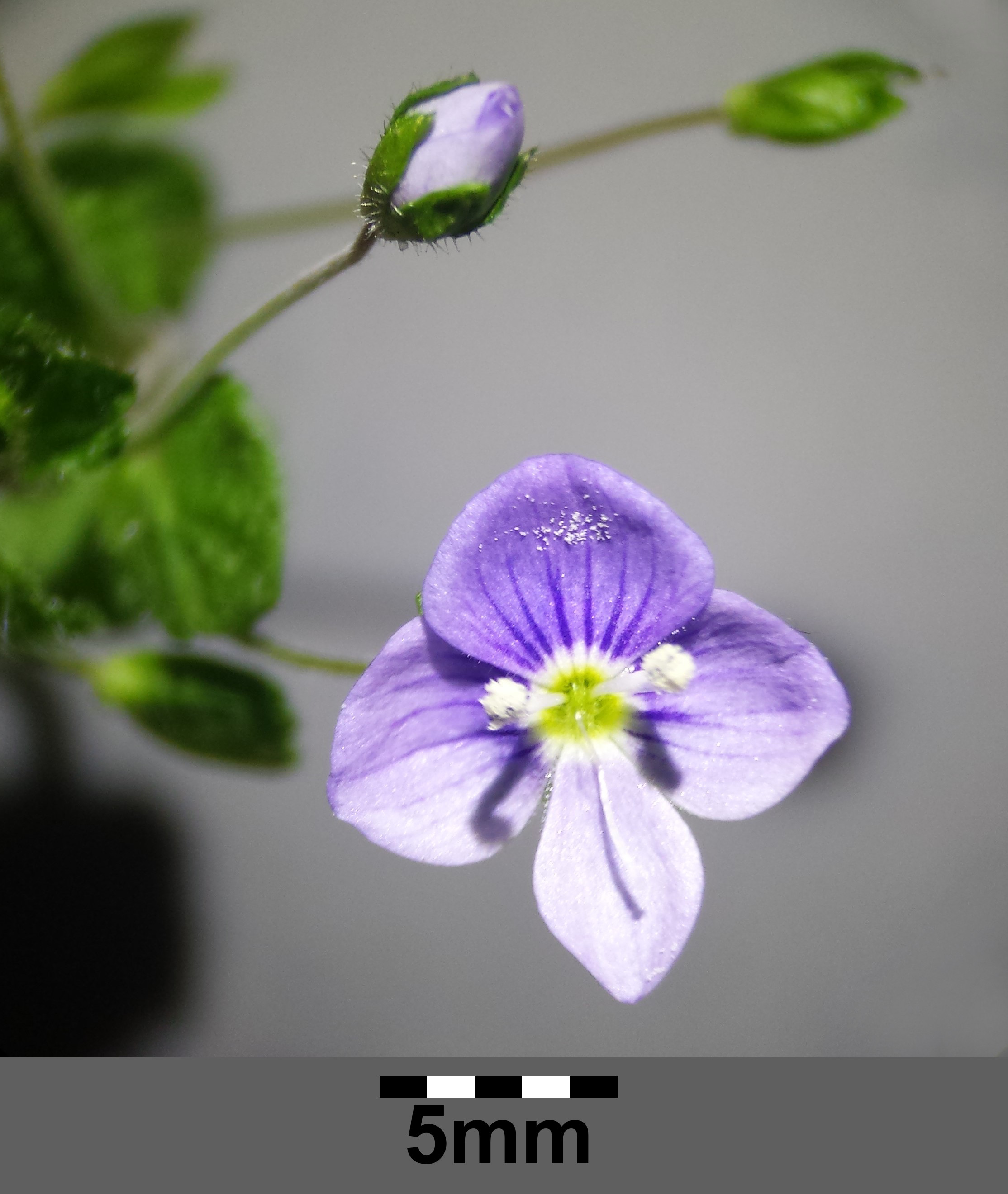 Flower and flower bud Taxonym: Veronica filiformis ss Fischer et al. EfÖLS 2008 ISBN 978-3-85474-187-9 Location: Unterschleißheim, district München, Bavaria, Germany - ca. 473 m a.s.l. Habitat: ruderal meadows